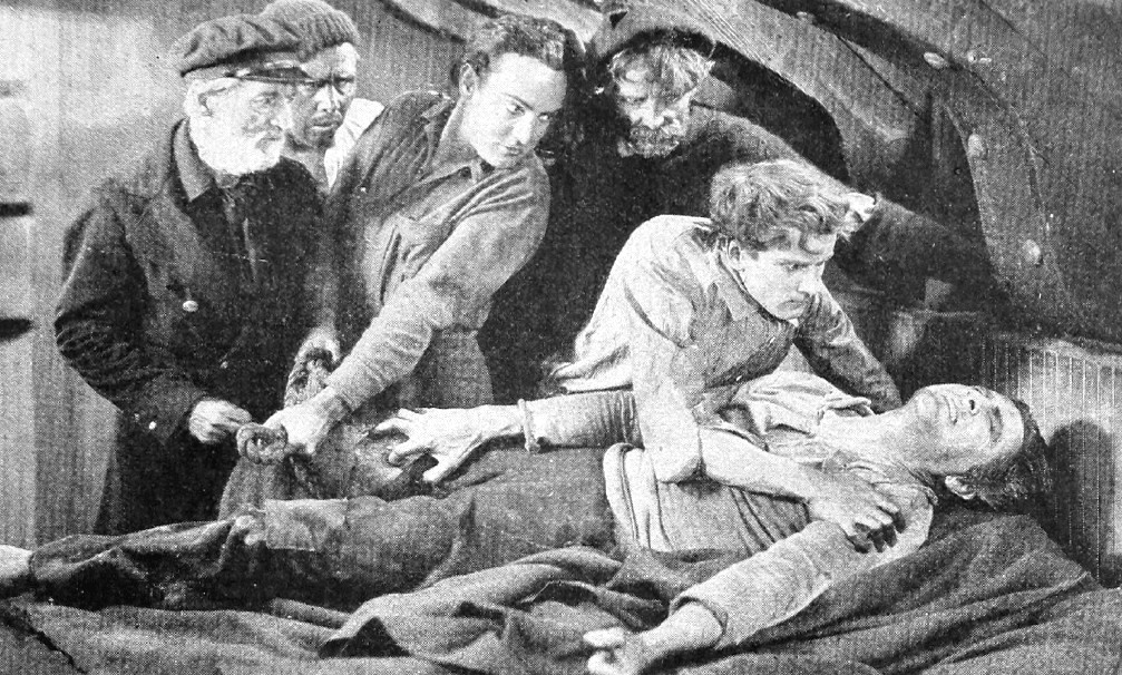 Scene from the 1926 film The Sea Beast.